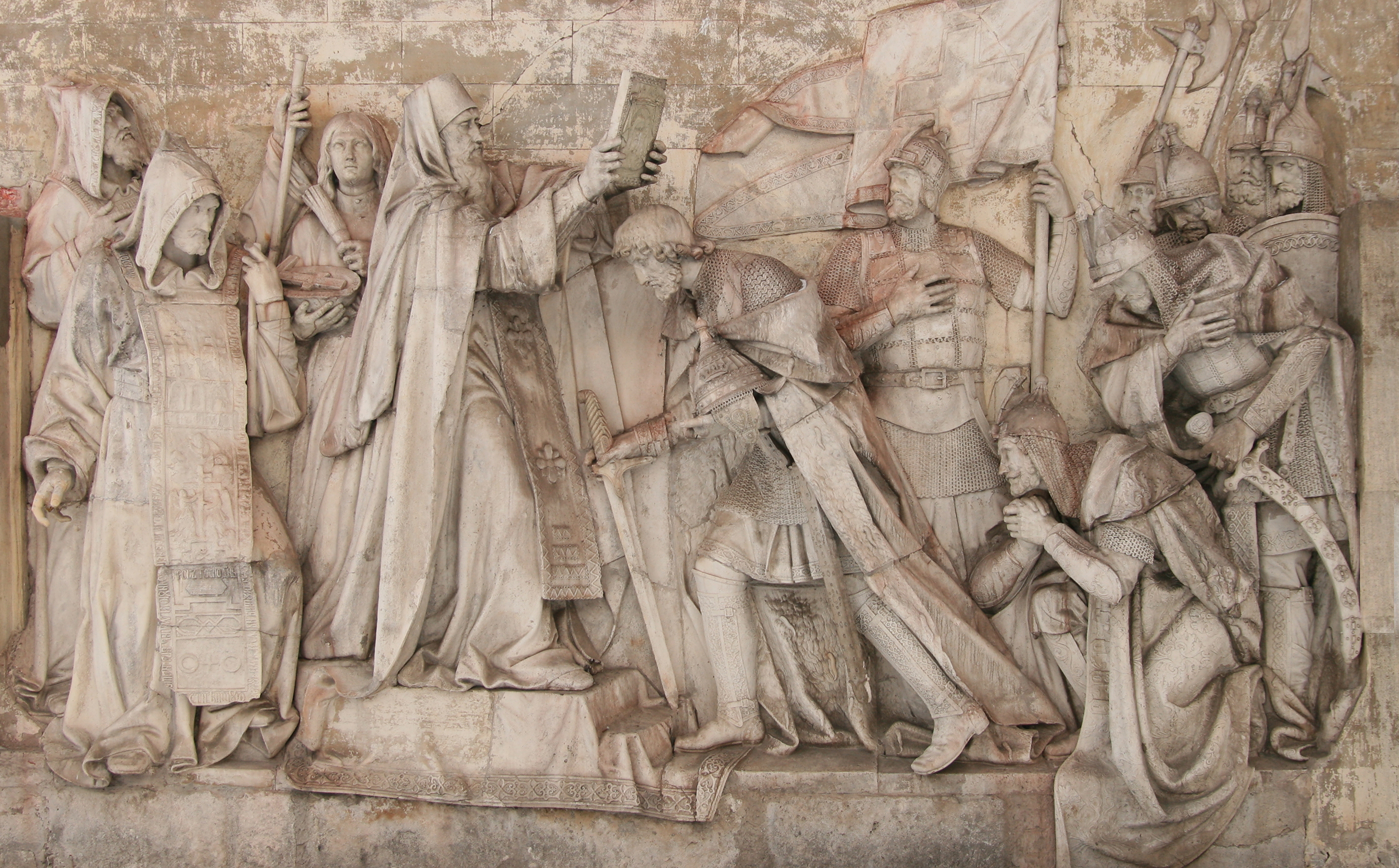 The relief features the visit of Prince Dmitry Donskoy to the Trinity Monastery before the Battle of Kulikovo. The warrior monks Peresvet and Oslyabya stand on the left and are depicted in schema garments. Sergius of Radonezh is depicted in the centre, with a raised icon, Dmitry Donskoy bends down before him.